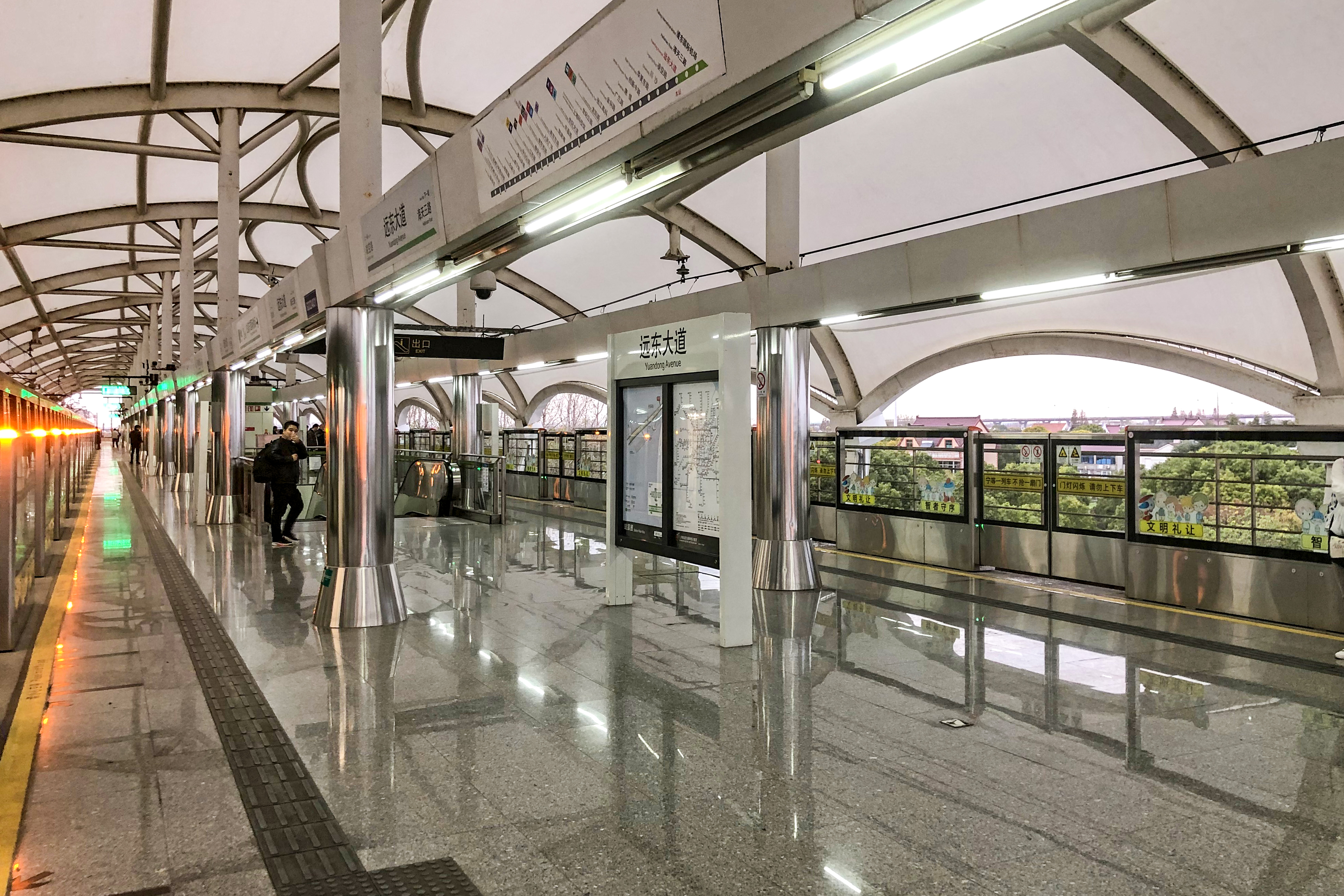 Finally on ground...